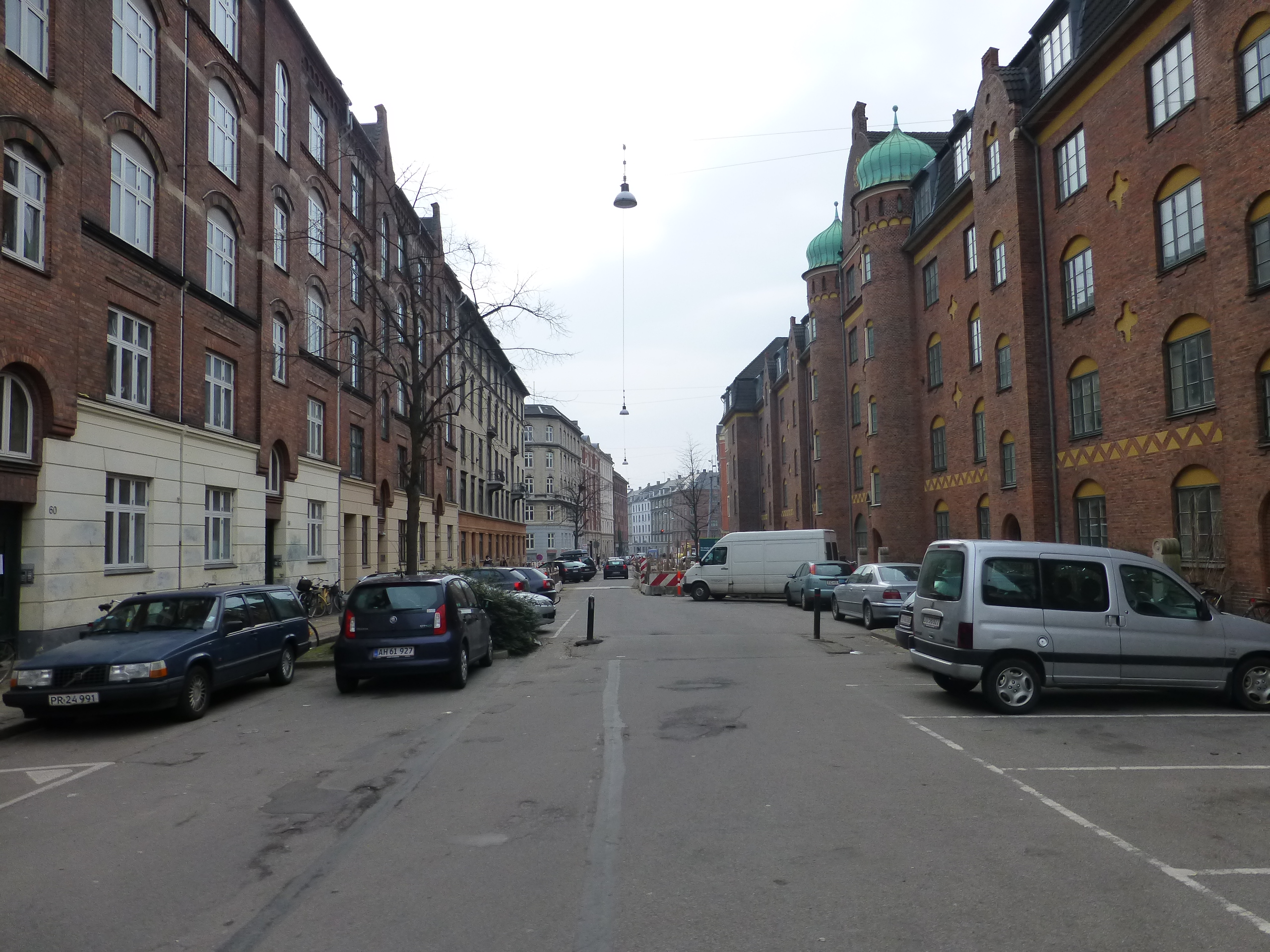 Ægirsgade is a street in Nørrebro in Copenhagen.